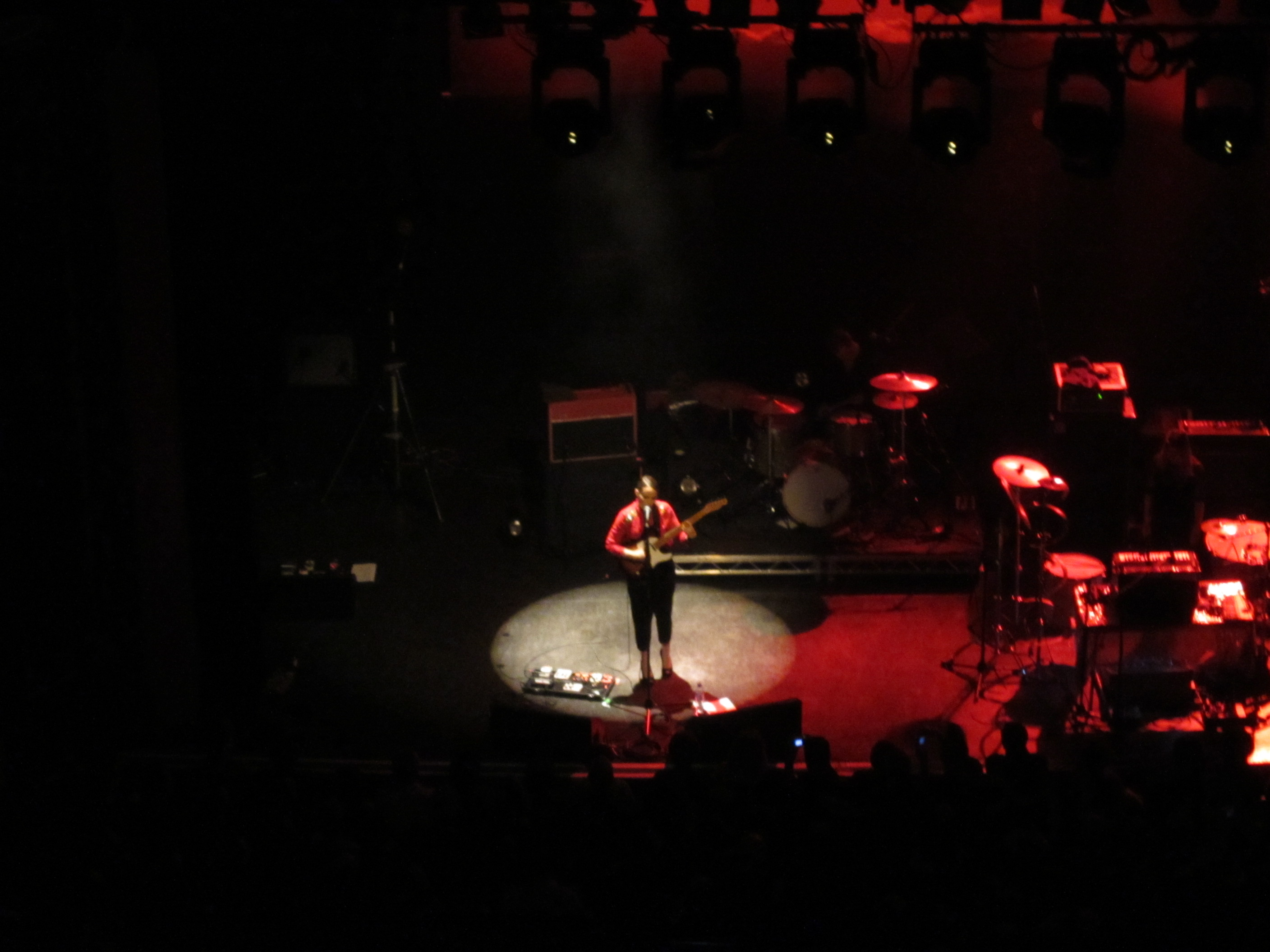 Anna Calvi playing at the O2 Shepherds Bush Empire on 1 November 2011